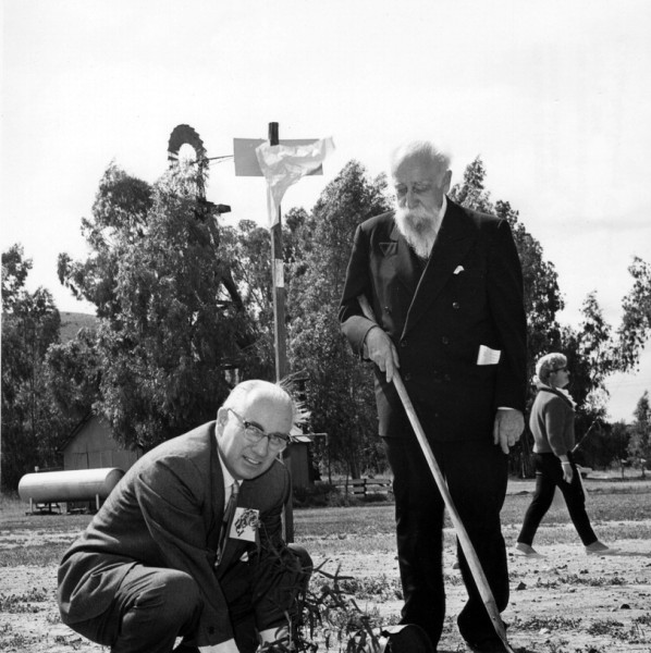 Sonderling, Jacob, 1878-1964, Simi Valley (Calif.) at Tree planting ceremonies. photograph by Otto Rothschild, courtesy of the Otto and Sylvia Rothschild Trust, c/o Kenneth Rothschild, ; and the American Jewish University collection, The university can be visited at